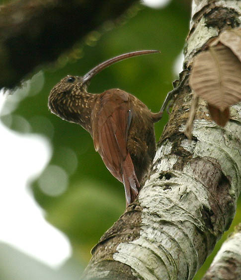 Red-billed Scythebill (Campylorhamphus trochilirostris) in Rio Silanche, NW Ecuador.